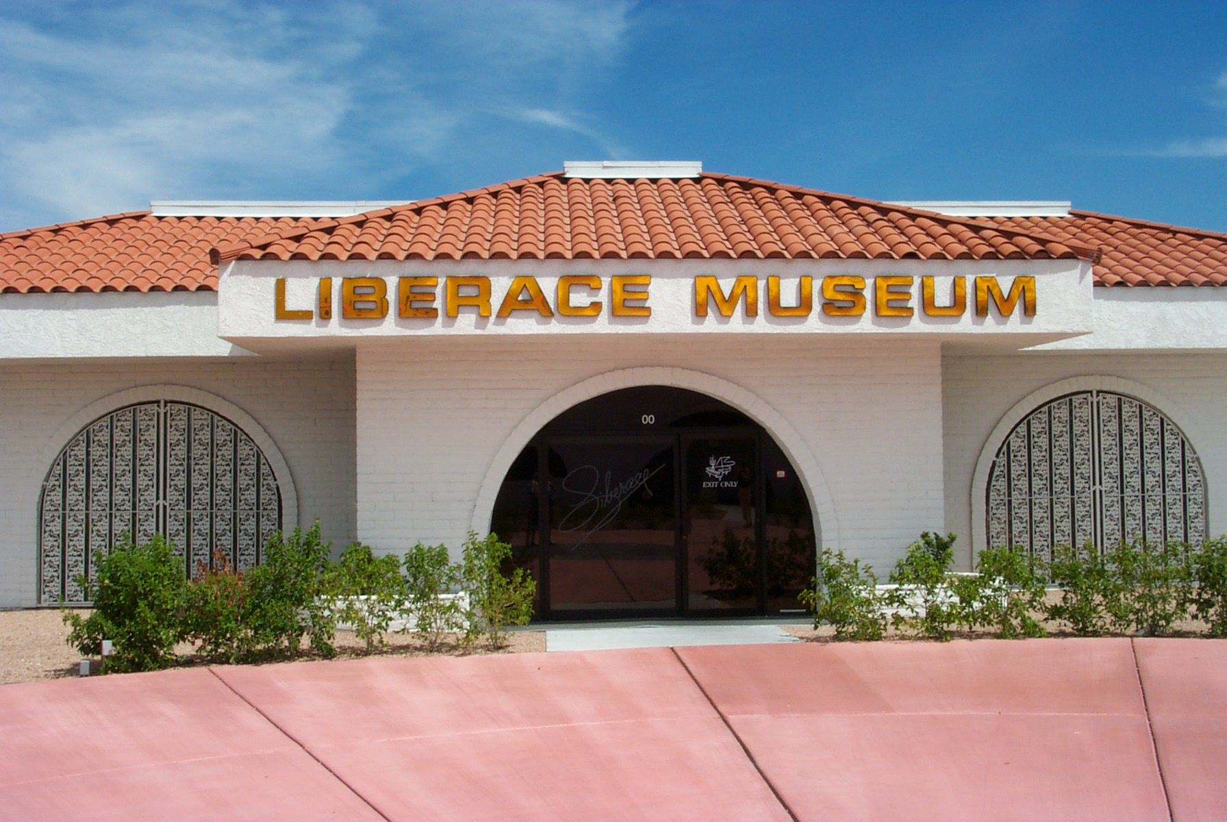 Liberace Museum, Las Vegas. Photographed by User:Pburka in August, 2003.